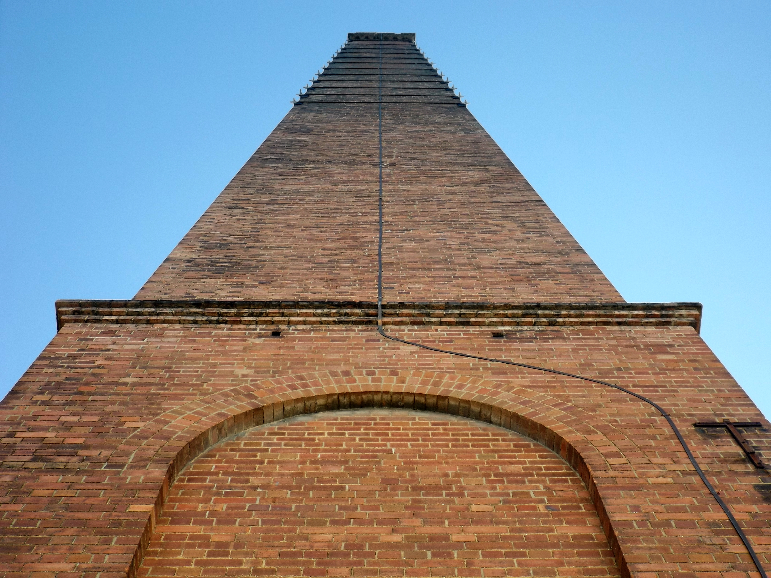 Photo of Newmarket Brickworks Chimney at Alderley, Brisbane, Queensland, Australia.